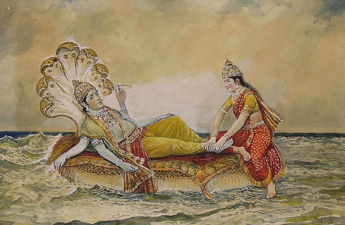 "Sheshashayi - Laxminarayan"; Water colour and gouache on paper pasted on paper; 13.5 X 19.5 in.(34.3 X 49.5 cms); Signed in English (Lower Right)